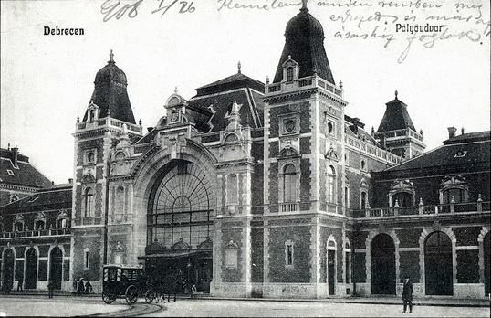 Debrecen railway station 1908